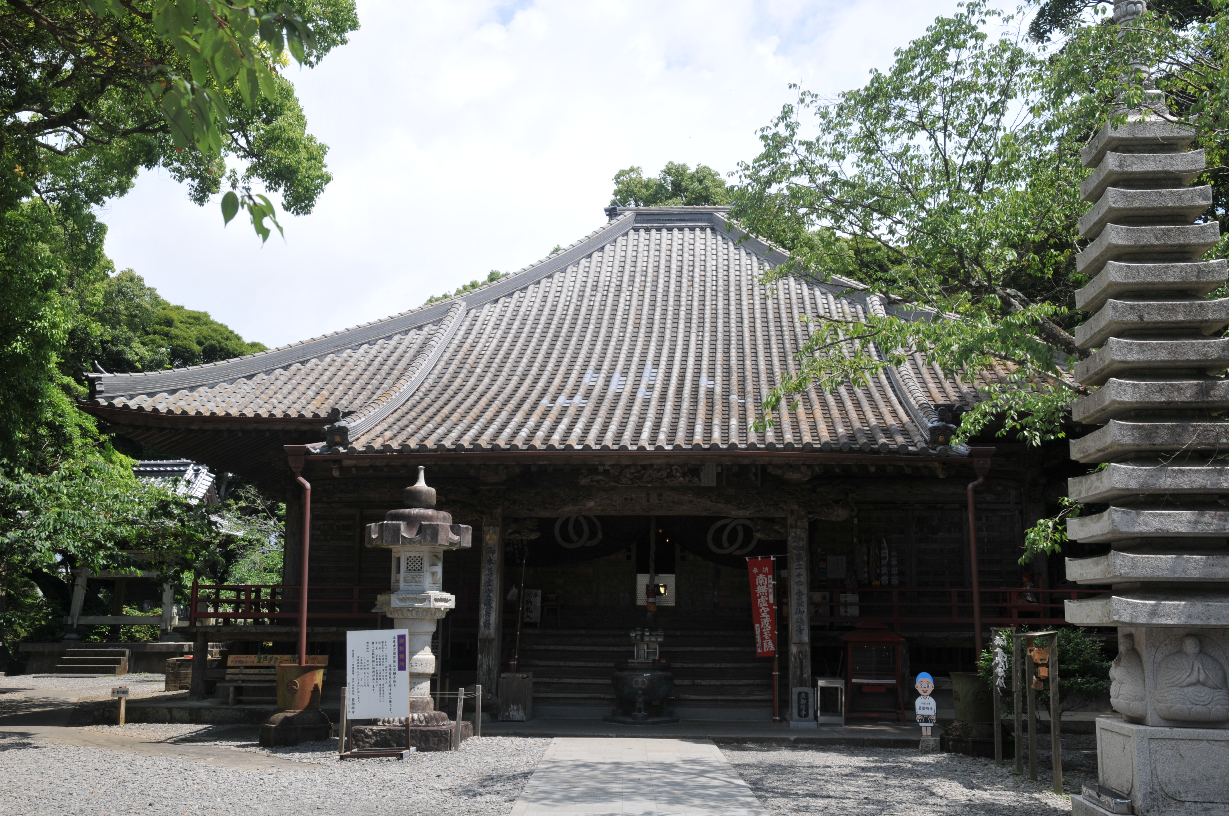 Main temple, Hotsumisaki-ji